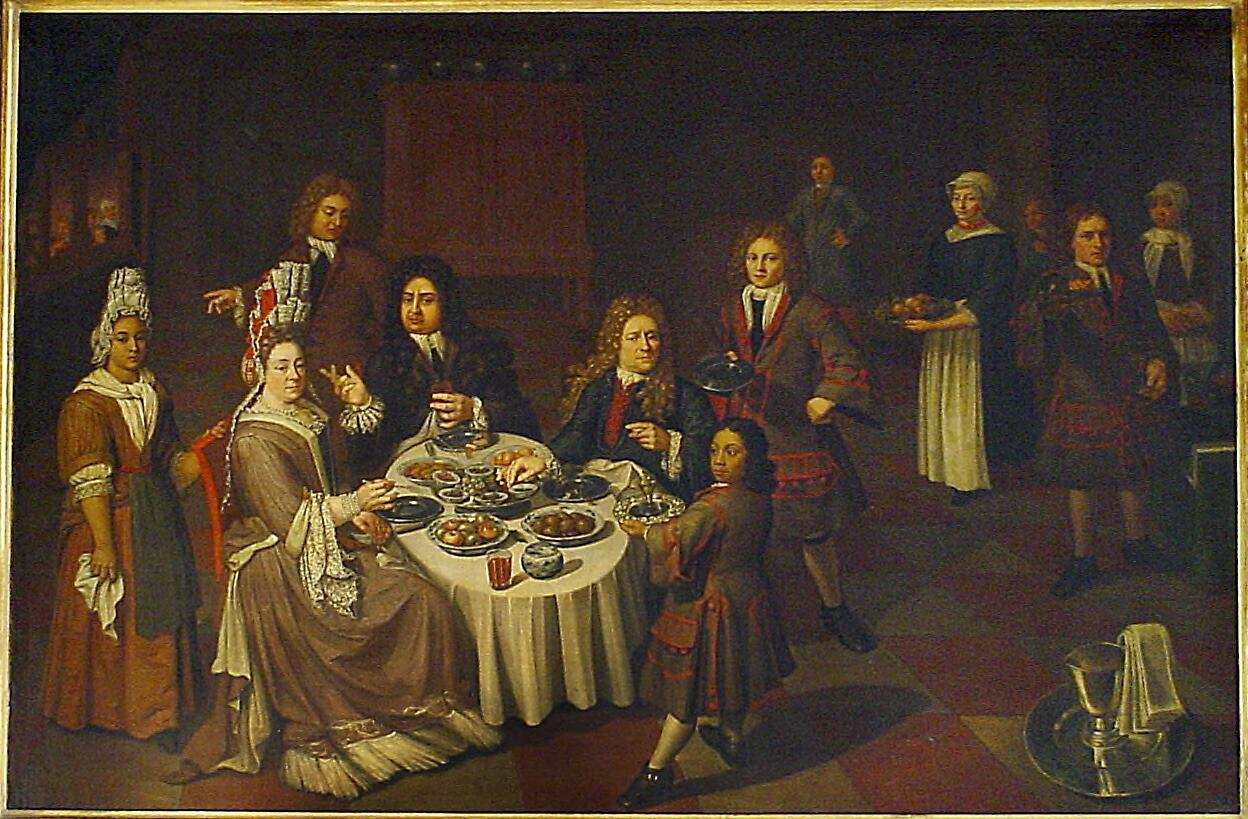 Aitzema family meal in Dokkum, with special guest Pieter the Great